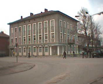 Chitalishte Petar Bogdan, Rakovski